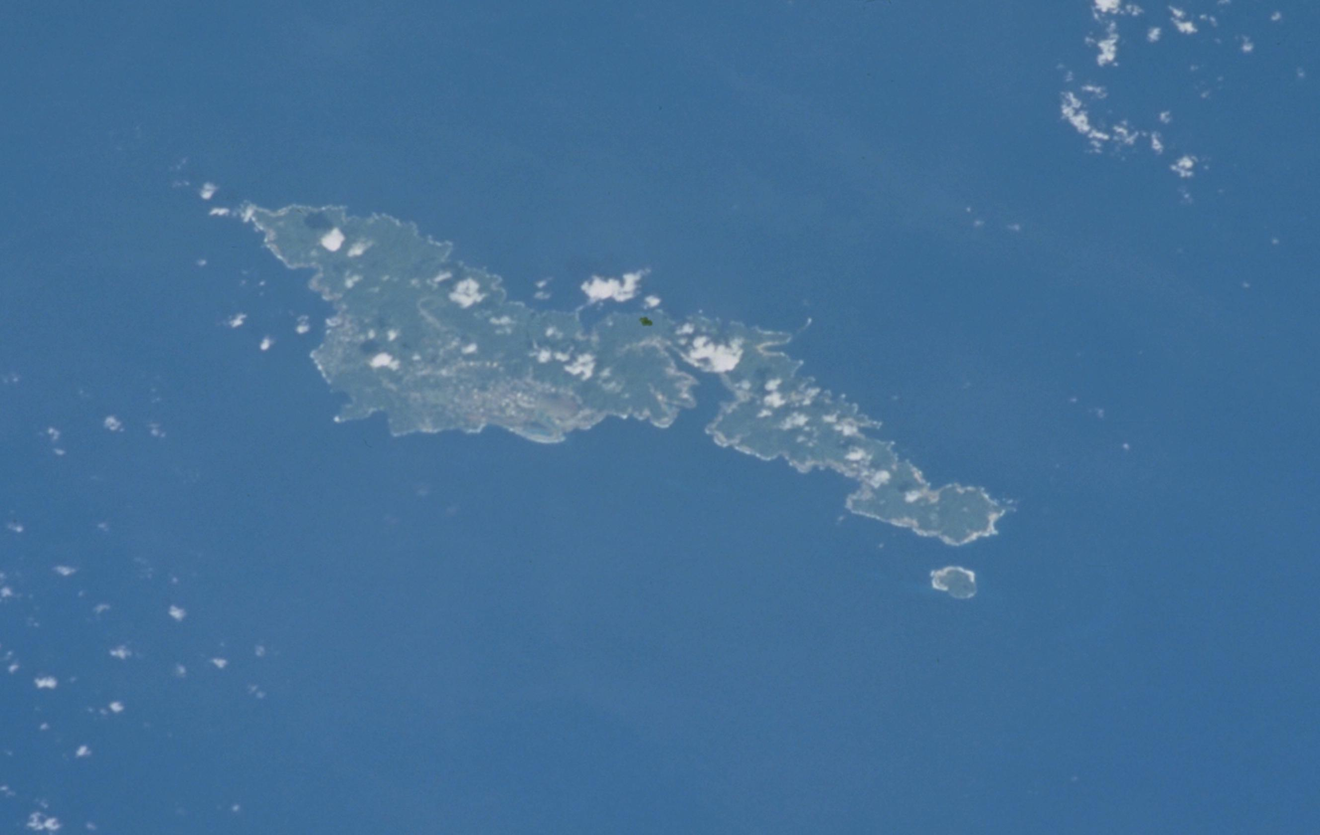 Tutuila and Aunu‘u Island, American Samoa. Aunu‘u lies southeast of the larger island Tutuila.